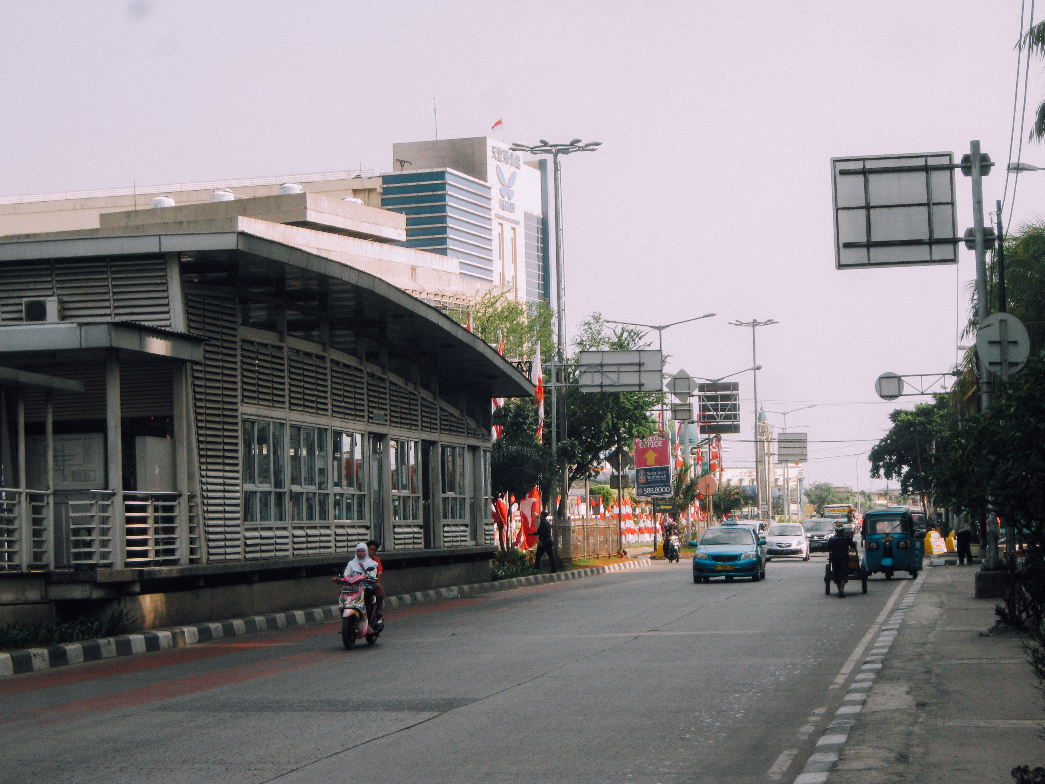 Halte Pakin